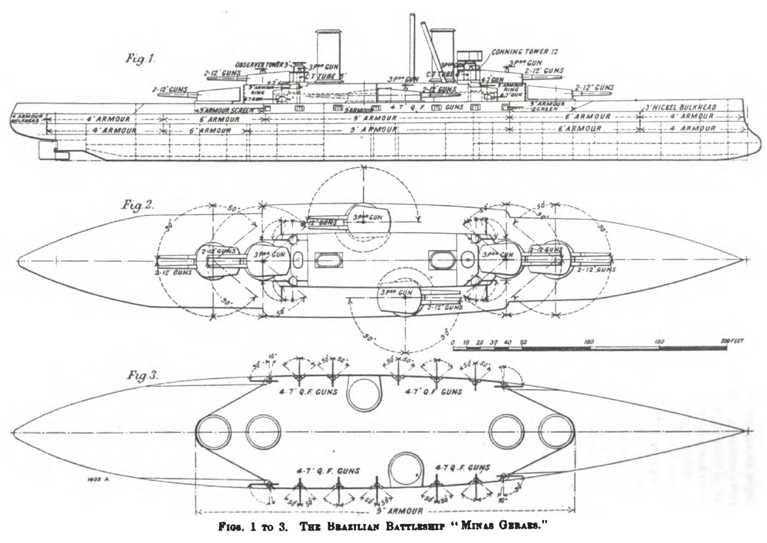 Plans of the Brazilian Minas Geraes-class battleships.